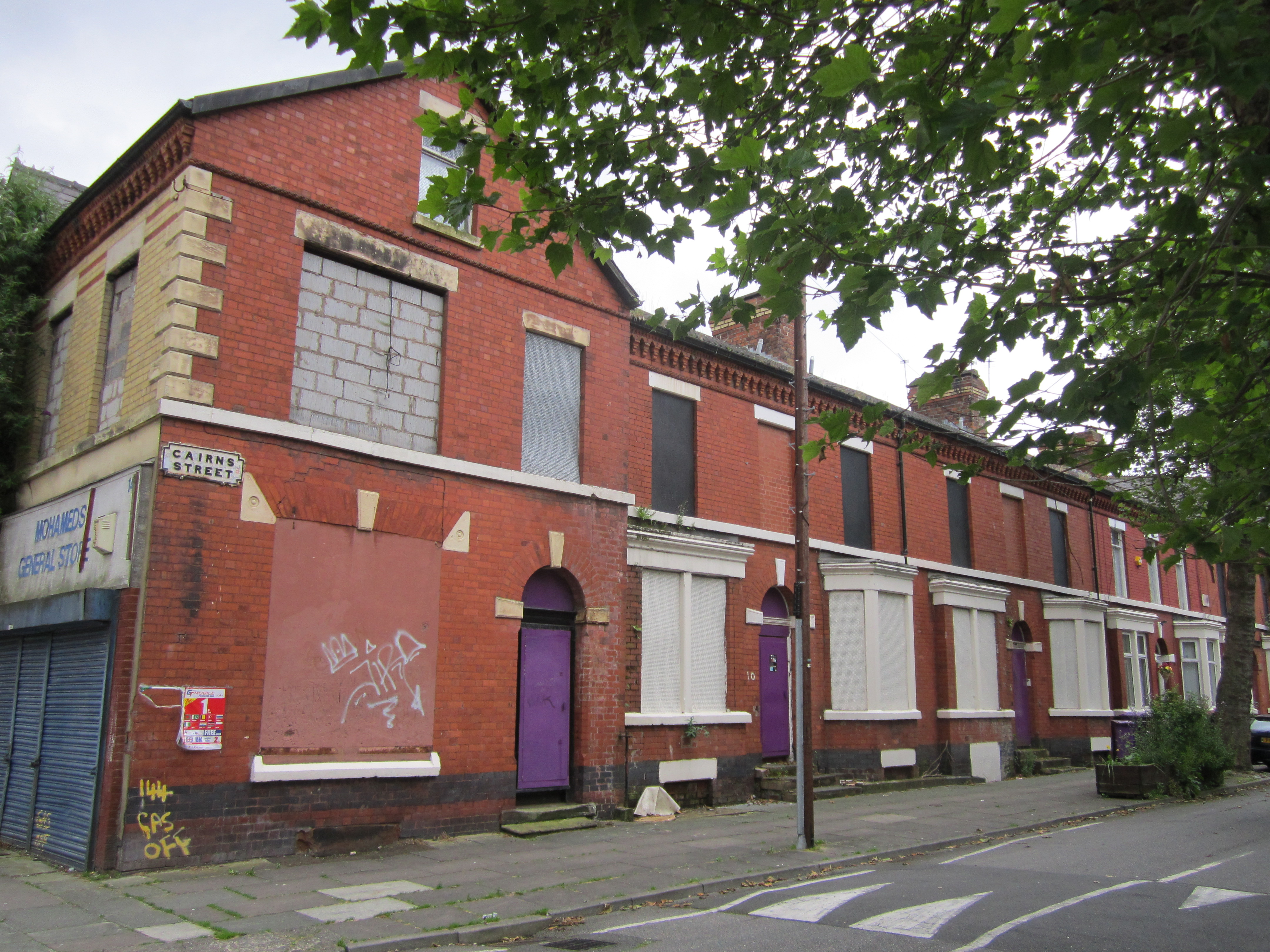 Cairns Street, Toxteth, Liverpool, England.